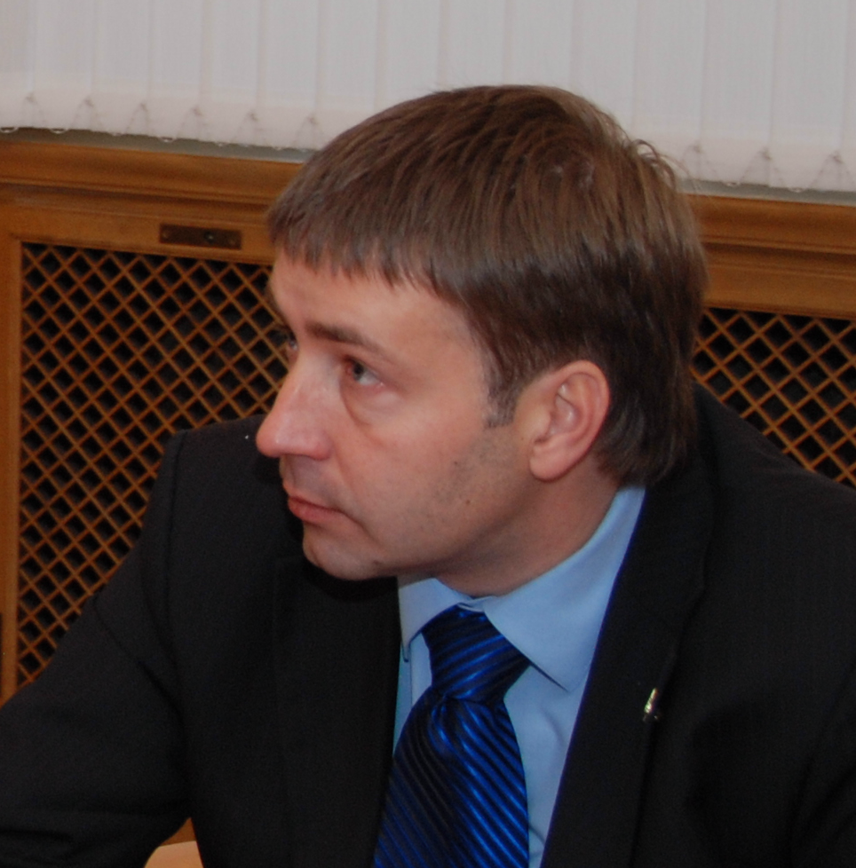 Minister of Welfare of Latvia Uldis Augulis during a meeting with the Association of Cities.